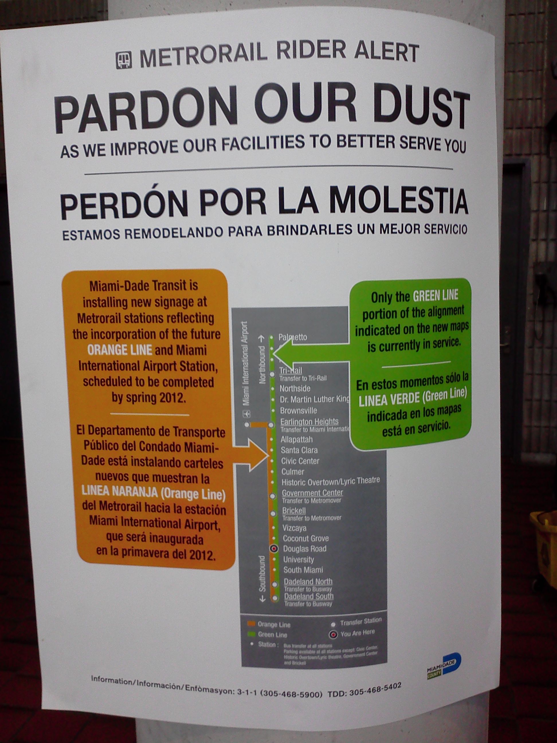 Sign announcing the progress of the Miami Metrorail Orange Line.